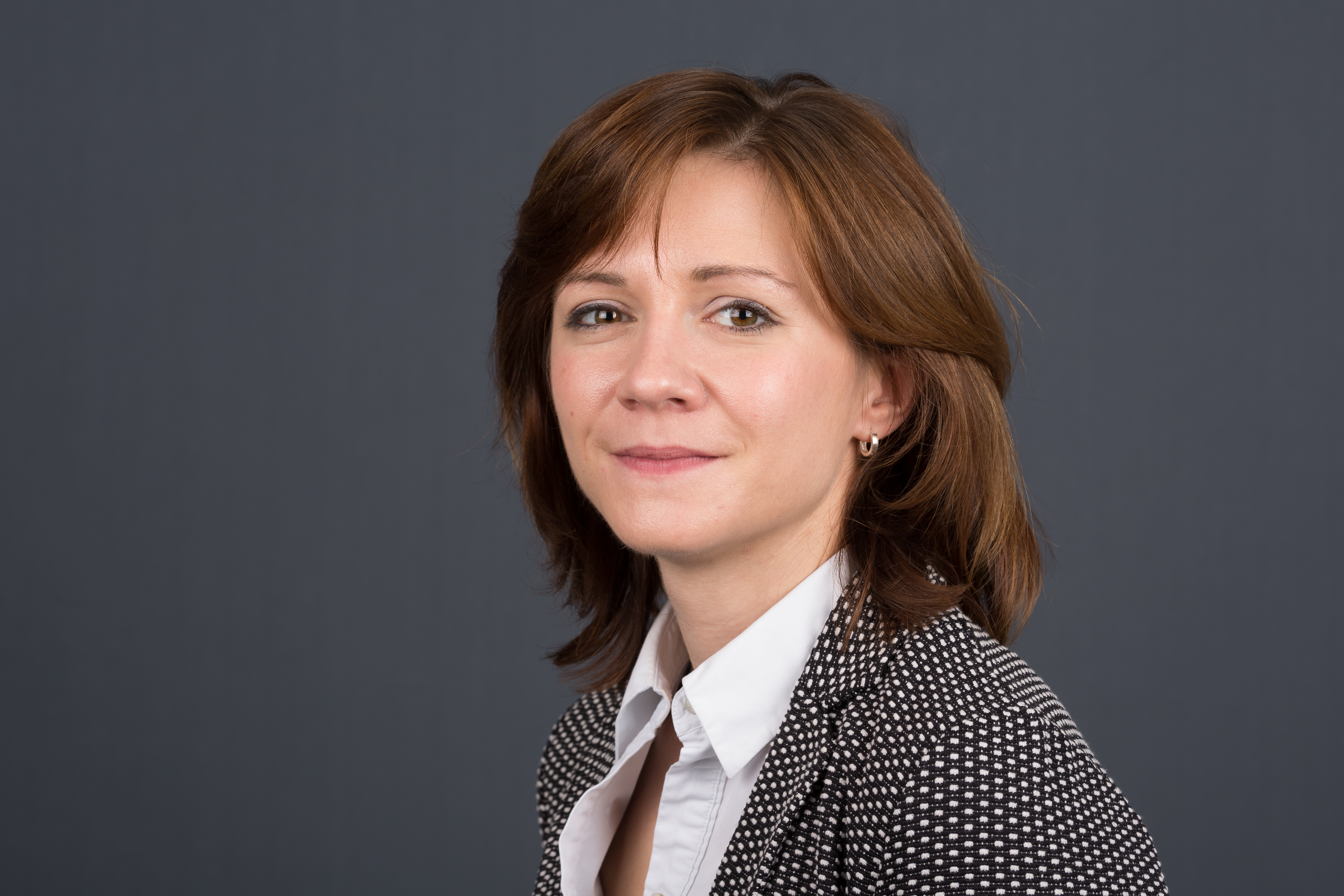 Juliane Pfeil-Zabel, SPD, Member of the Parliament of the Free State of Saxony